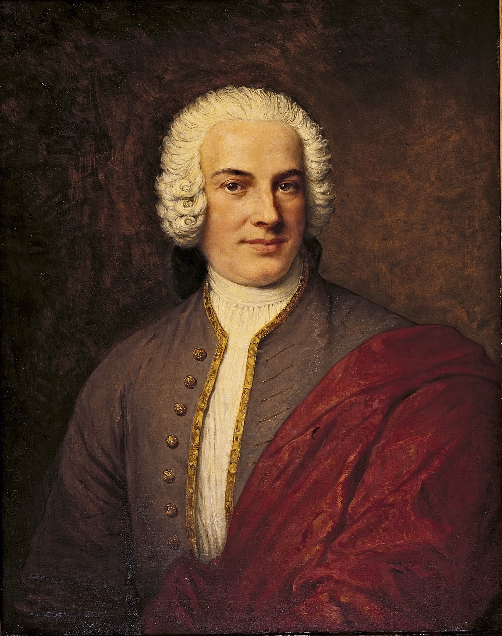 Johann Berenberg (1718–1772), Hamburg merchant and banker (Berenberg Bank)